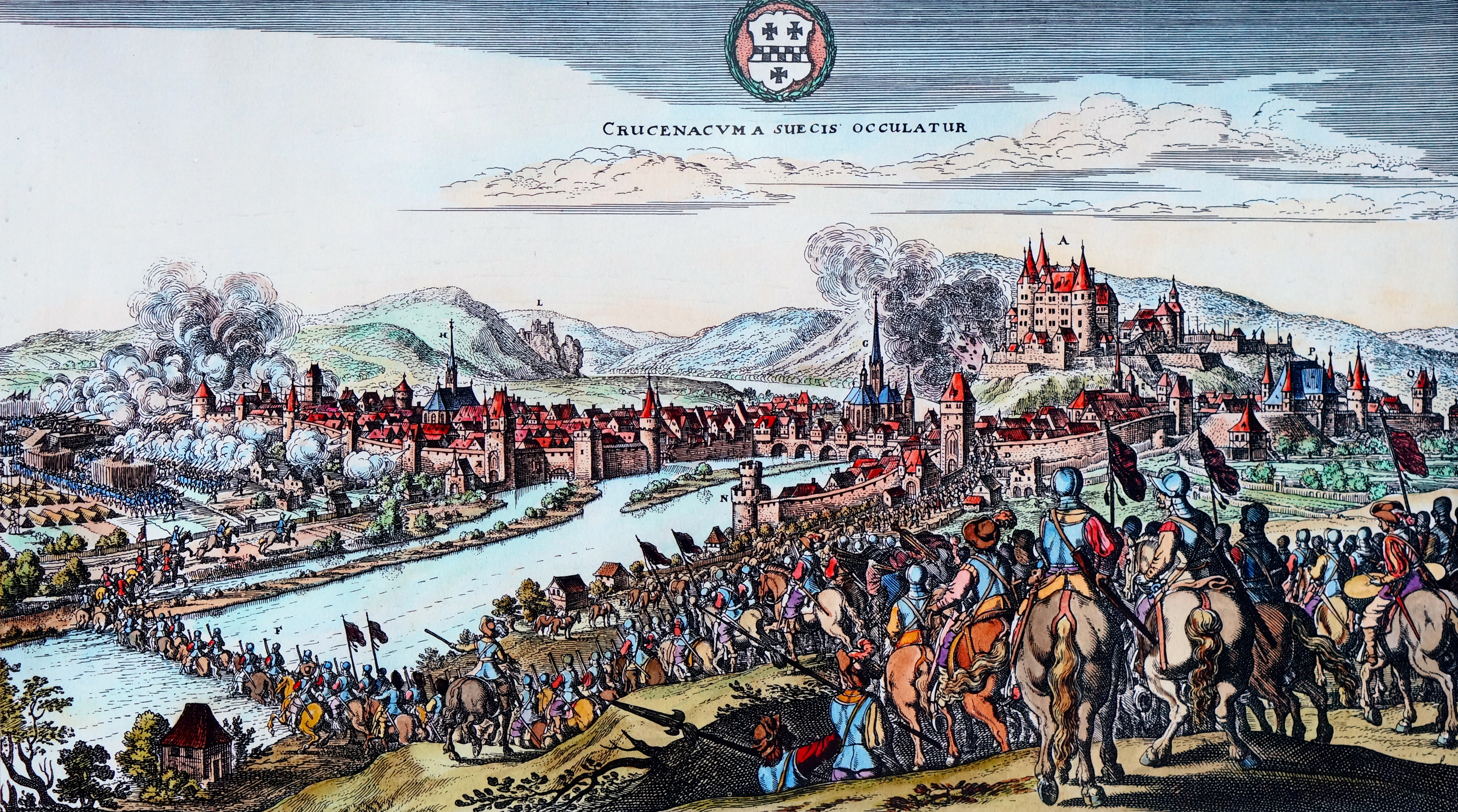 colored version of .